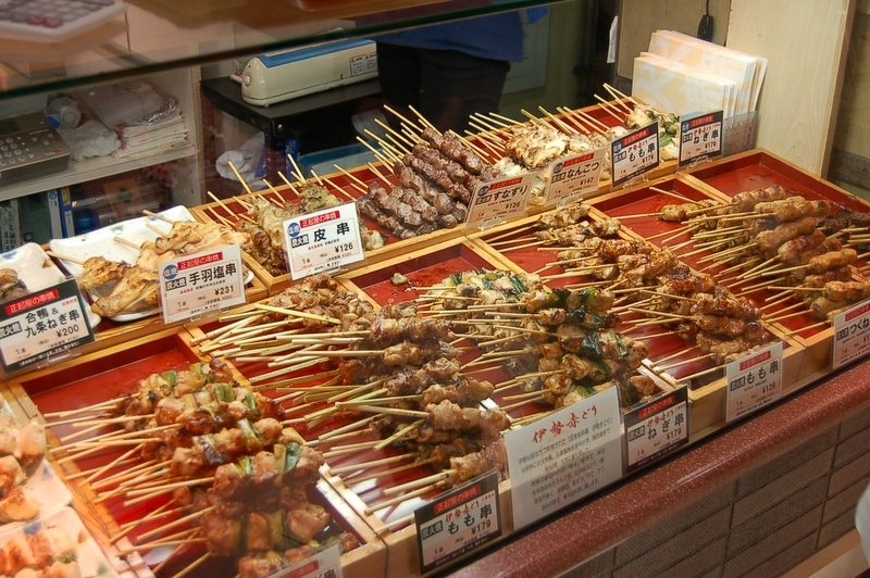 Yakitori (grilled chicken) on sale in a depachika (department store basement food market) in Kyoto.DSC_0459